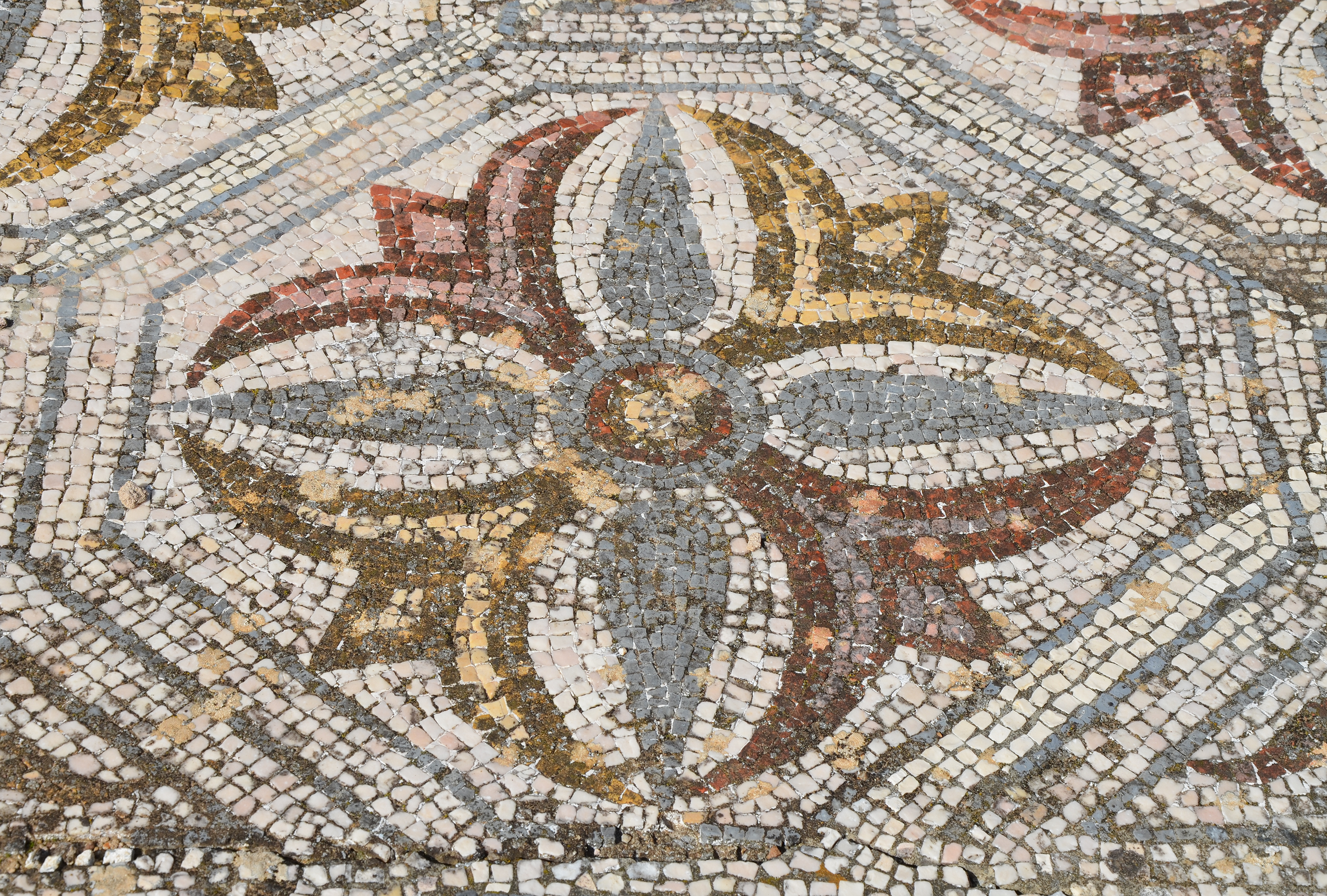 Mosaic floor with geometric and naturalistic motifs, Roman Villa of Pisões, Lusitania, Portugal